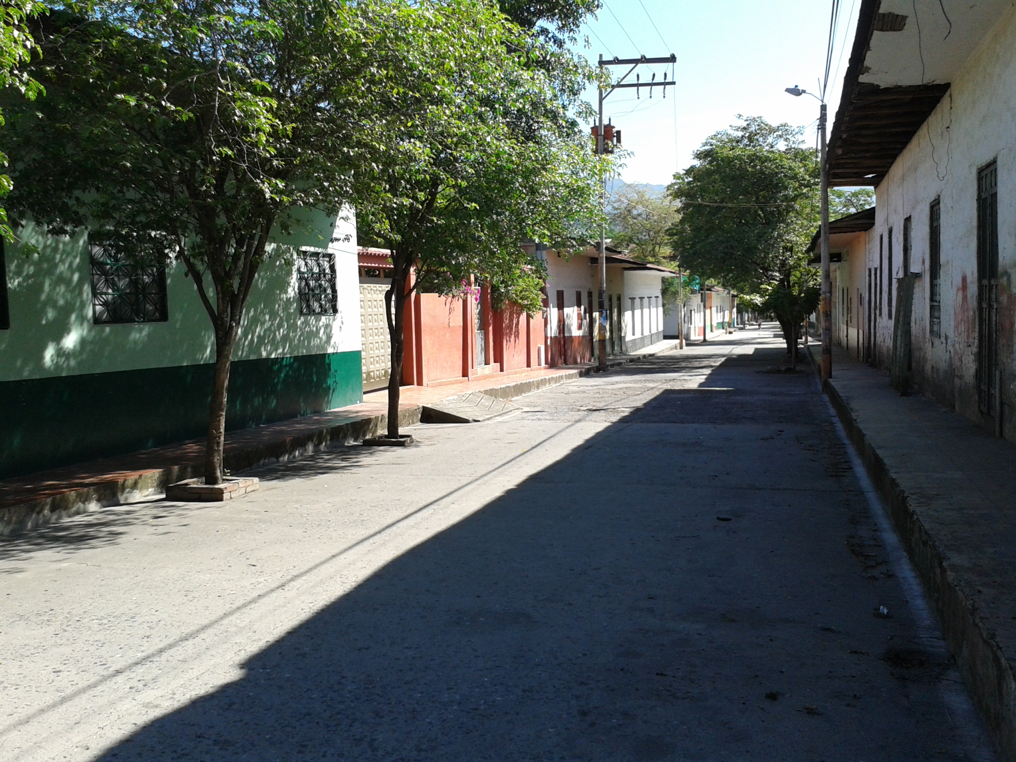 A typical street in Útica